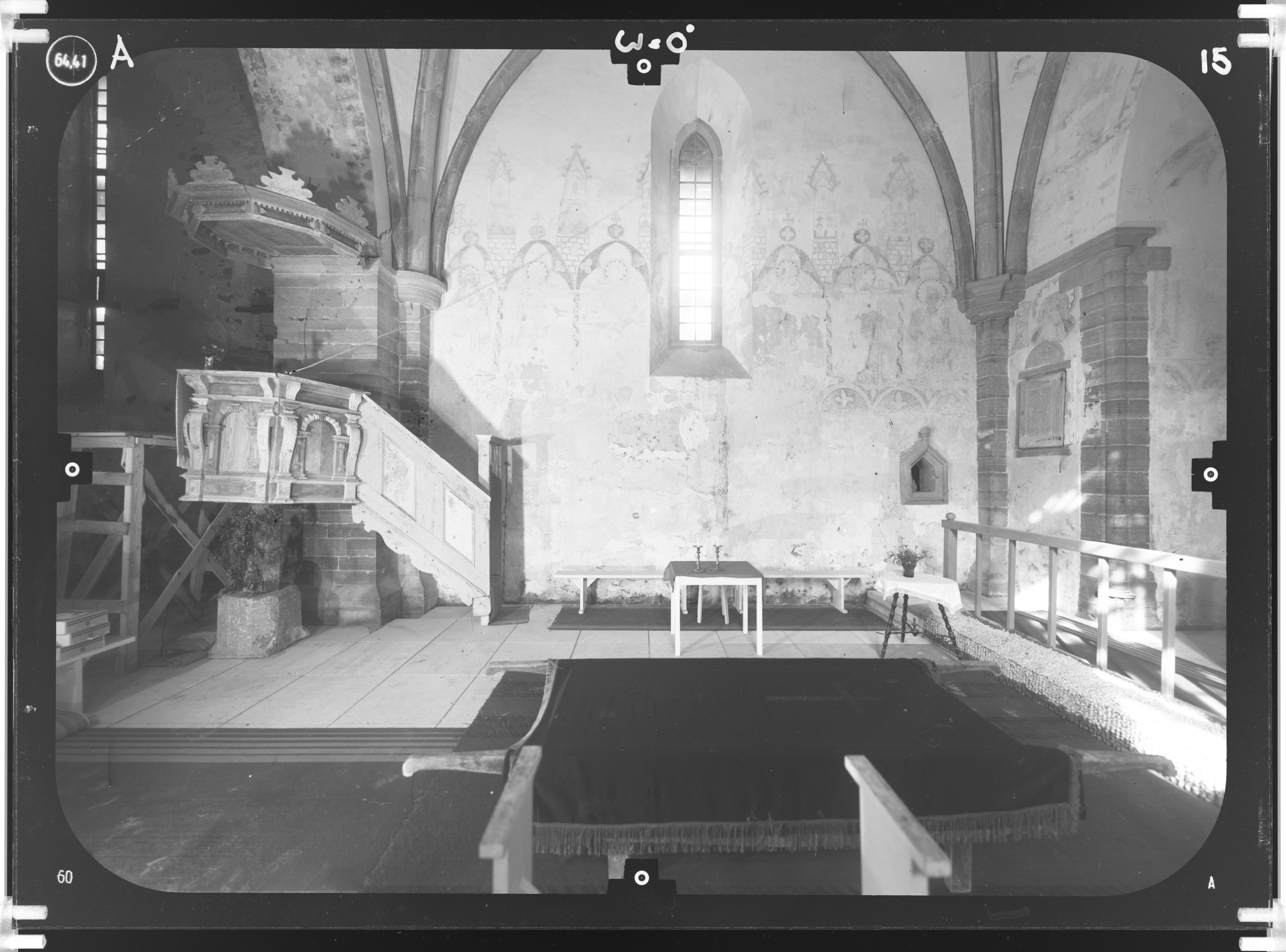 The interior of the Muhu St. Catherine's Church